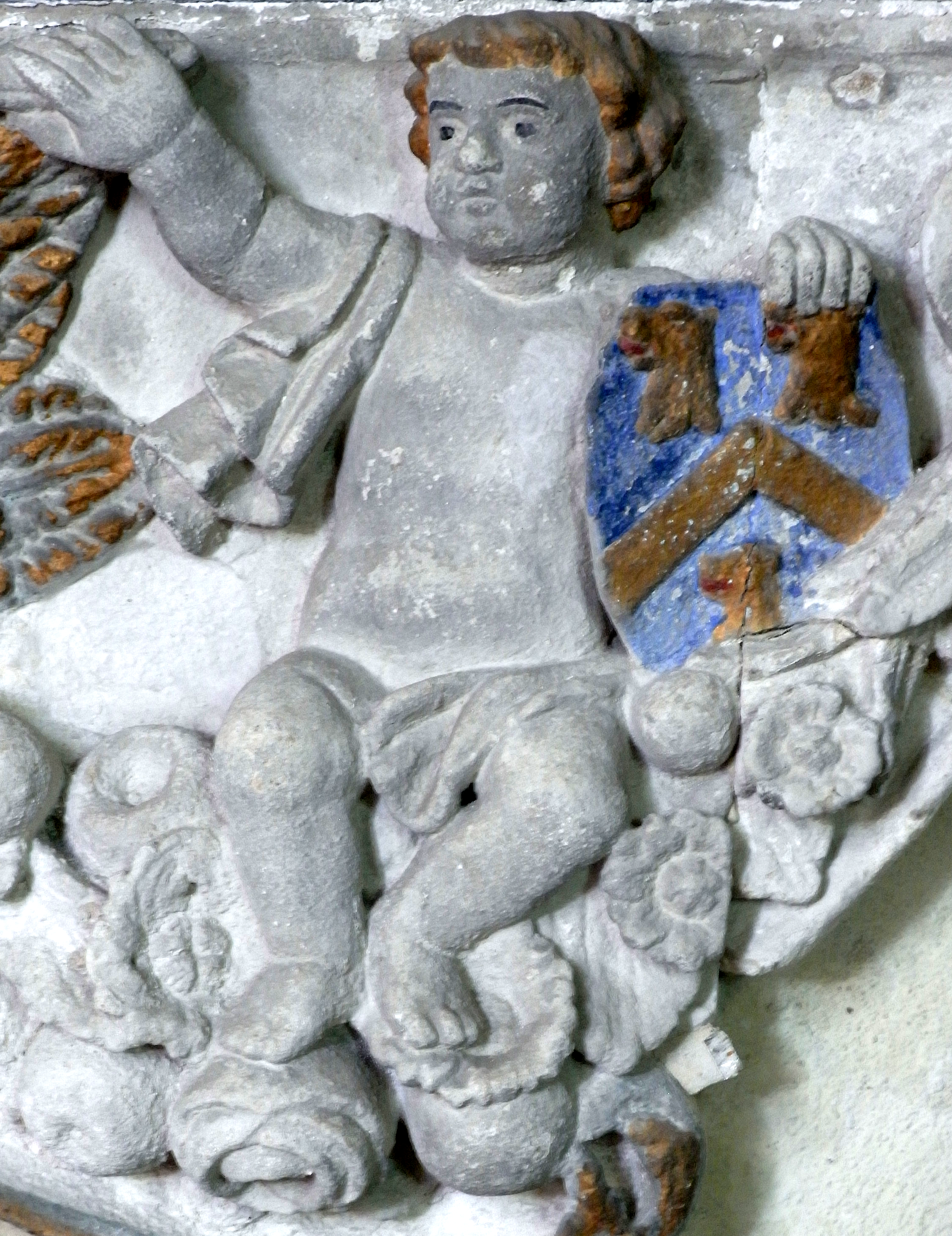 Part of a monument in All Saints' parish church, Clovelly, Devon. A putto holding an escutcheon showing arms of Wyndham: Azure, a chevron between three lion's heads erased or. Detail from mural monument to Joan Wyndham (1669–87). She was the first wife of William Cary (about 1661–1710), lord of the manor of Clovelly, twice Member of Parliament for Okehampton in Devon 1685–87 and 1689–95 and also for Launceston in Cornwall 1695-1710 and was the daughter of Sir William Wyndham, 1st Baronet (about 1632–83) of Orchard Wyndham, Somerset, Member of Parliament for Somerset 1656–58 and for Taunton 1660–79. Above are shown the arms of Cary (Argent, on a bend sable three roses of the field) impaling Wyndham.